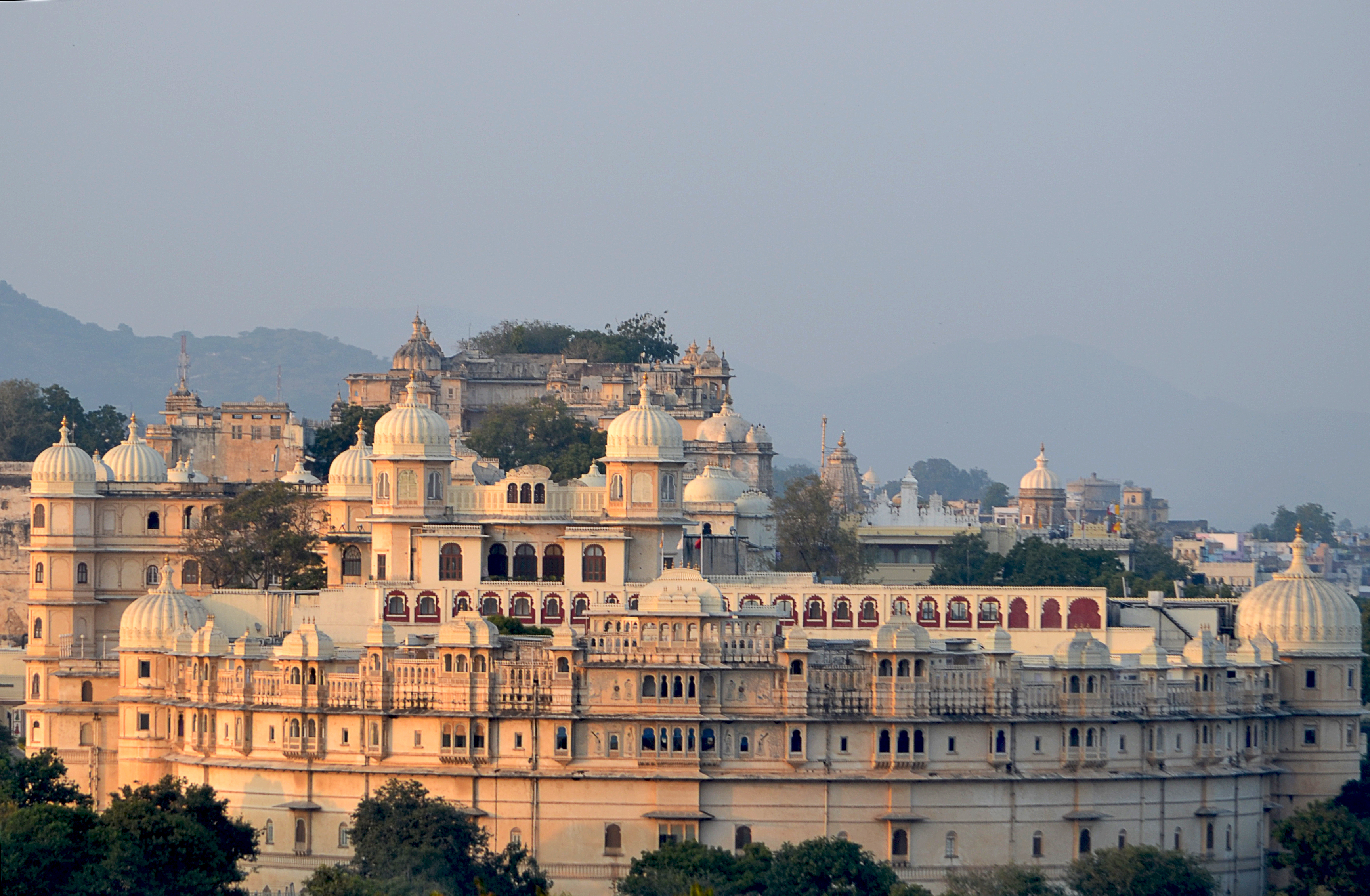 Clicked from Deendayal Upadhyay Garden, Udaipur during sunset time. The picture shows the outer view of Shiv Niwas Palace and its architecture. The famous Jagdish Temple is visible in the background.